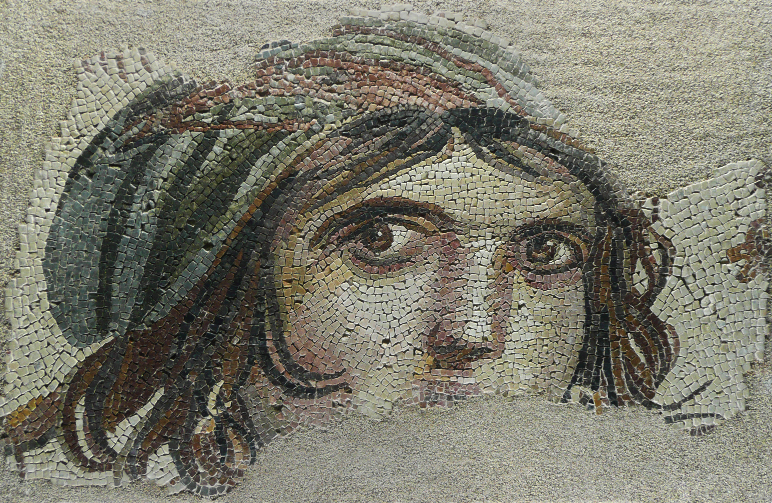 "The Gypsy Girl" mosaic of Zeugma, from Gaziantep Museum of Archeology Edited version: Perspective cropped. Over 100 layer masks applied with incremental brightness and contrast adjustments (to correct for uneven lighting. Minimal clone stamping and healing brush application to border background only, to remove part of a support clasp and correct for extreme brightness variance mostly at lower edge. Curves adjusted to enhance midtone contrast and slightly reduce contrast in the extreme bright range (to correct for the effect of directional lighting upon the background).